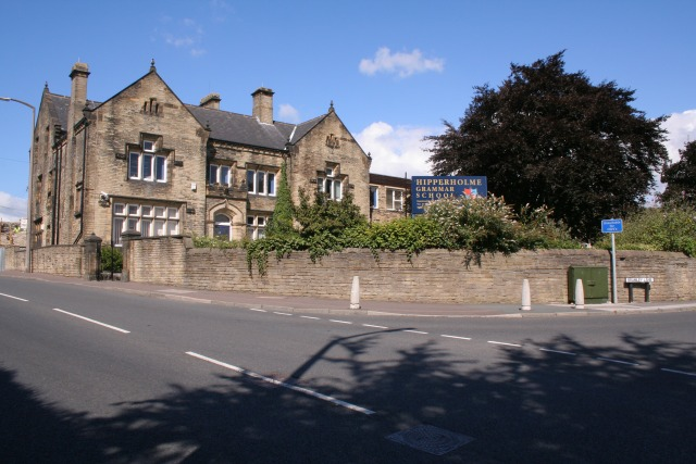 Hipperholme Grammar School at grid reference SE124257 in Hipperholme, Calderdale, England. Looking N from Denholme Gate Lane at its junction with Bramley Lane.